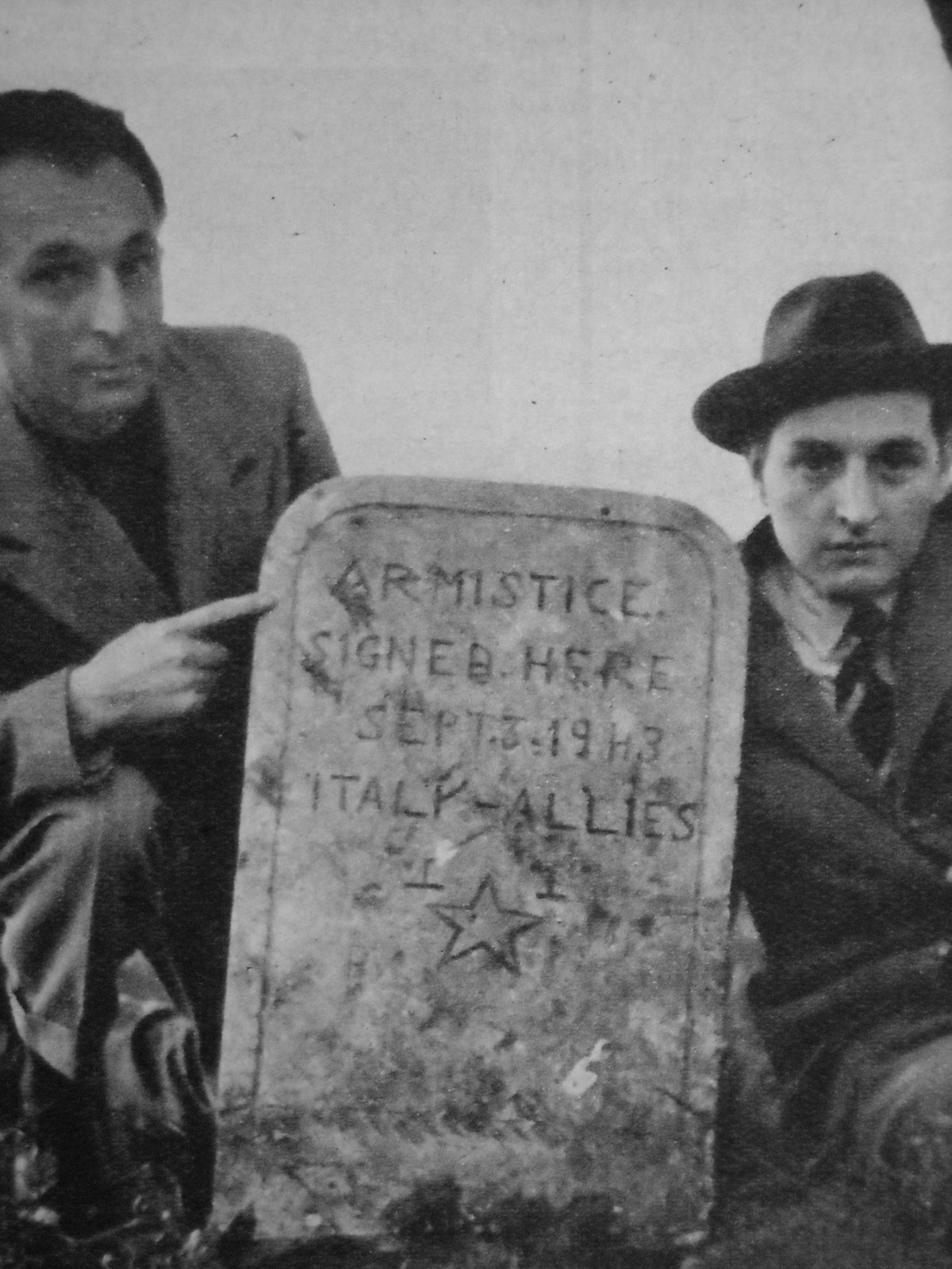 "Stone of the peace" - Cassibile (Syracuse) - The signature to remember for Armistice of Cassibile - Given from soldiers of Eisenhower to baroness Aline Grande